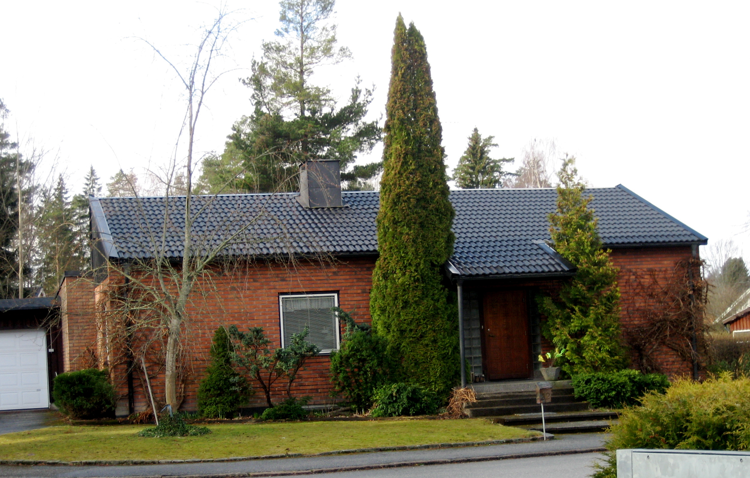 A villa by architect Endel Öunapuu in Örebro, Sweden